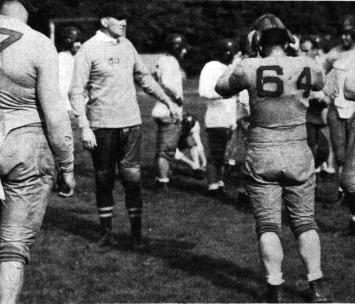 Jock Sutherland, legendary coach of the Pitt Panther football team